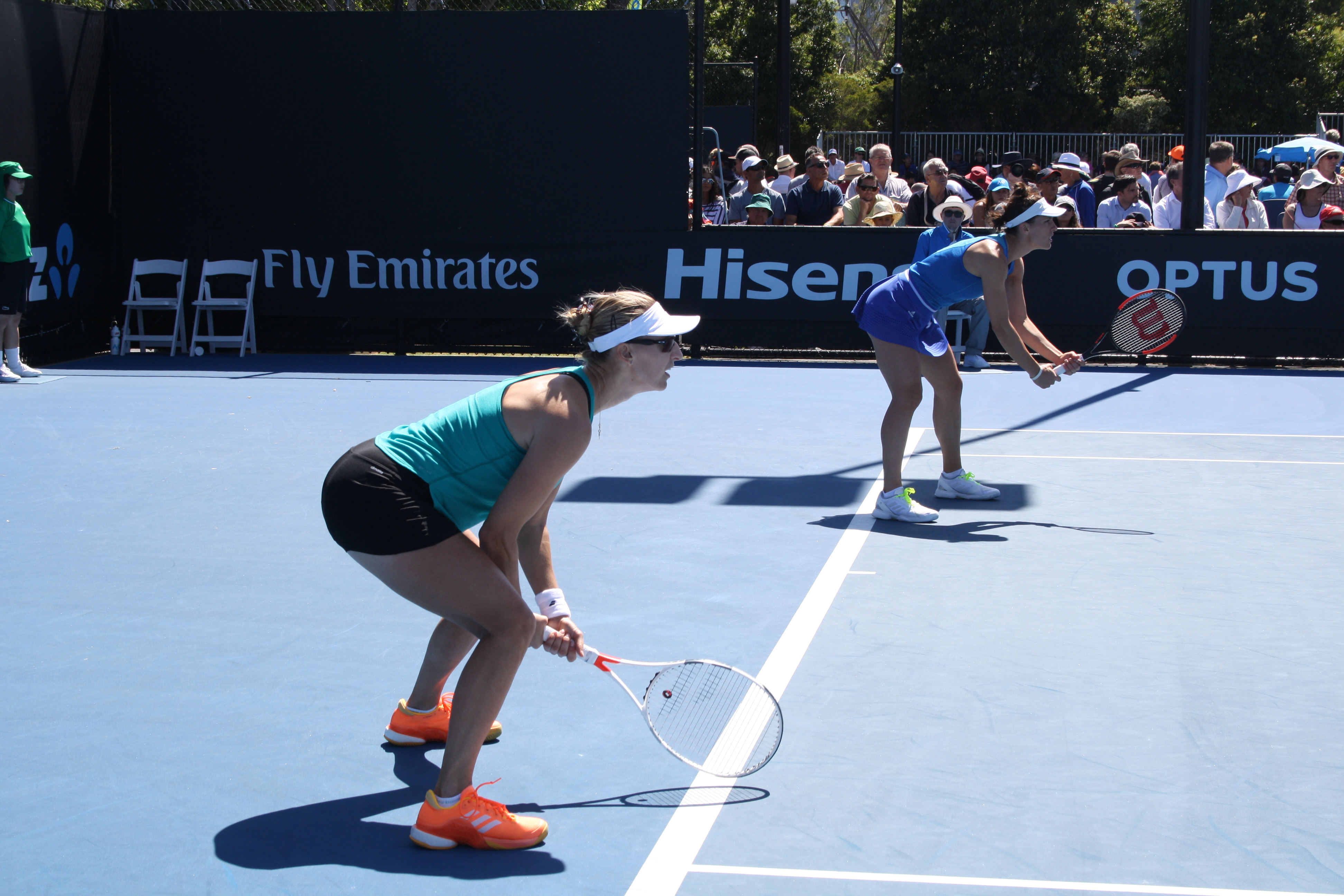 Mirjana Lučić-Baroni and Andrea Petković, January 2017